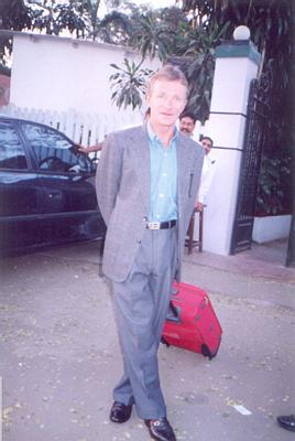 International jockey Pat Eddery outside Mahalaxmi racecourse at the end of the "race-Day" after competing in the races.